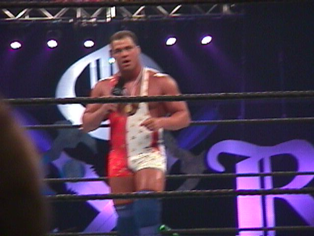 Kurt Angle at the WWF King of the Ring at the Fleet Center in Boston, MA in 2000 - WWE